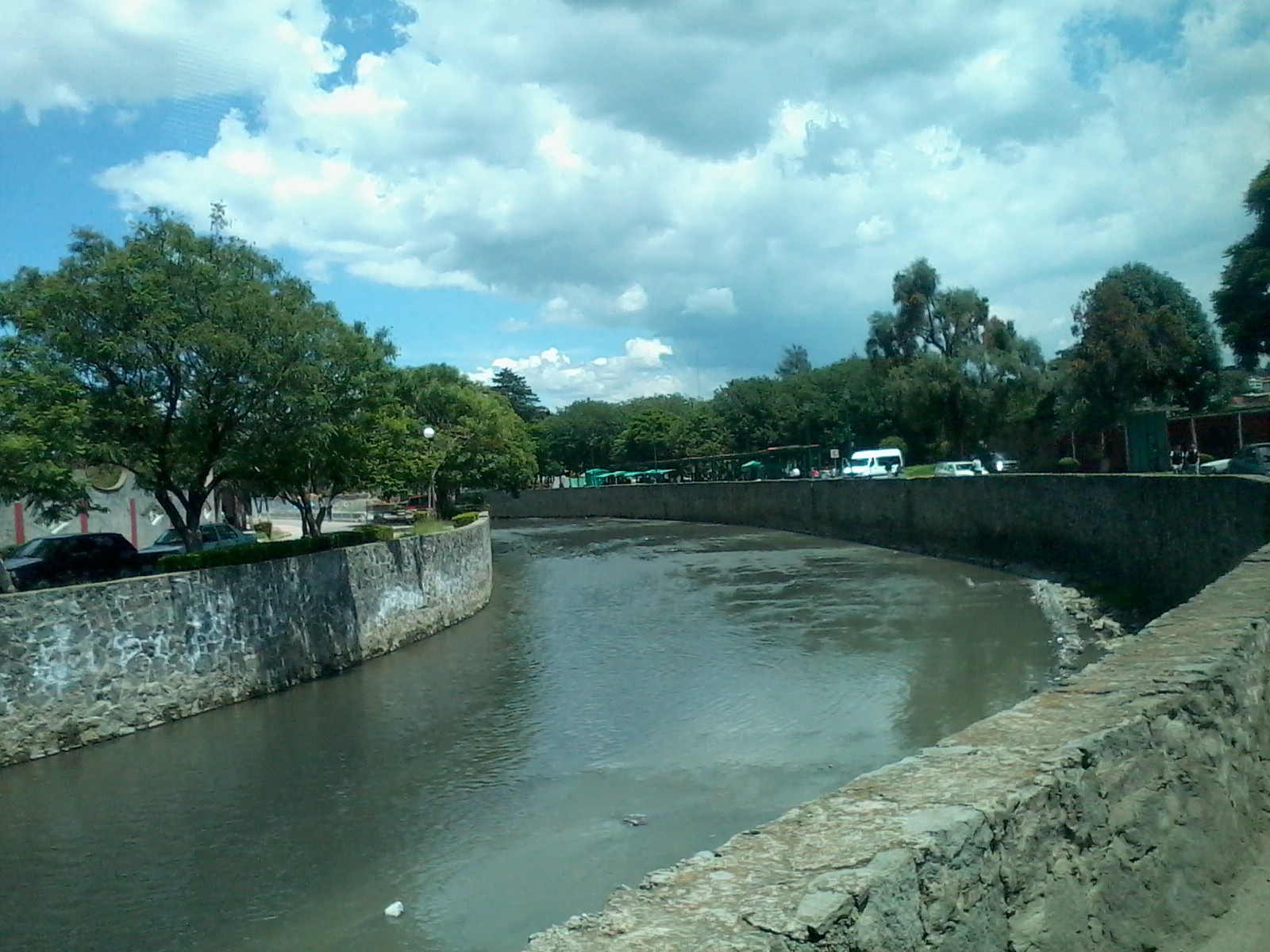 An image of the Zahuapan River in Tlaxcala city